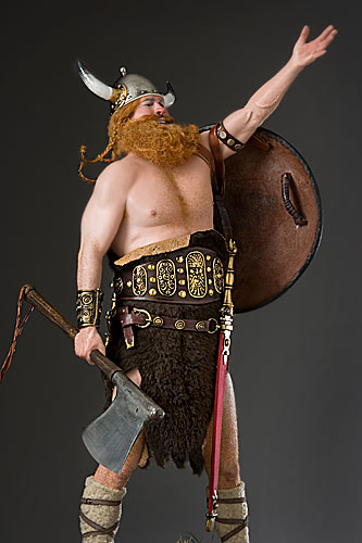 Historical Mixed Media Figure of Boltar the viking from the comic strip "Prince Valiant" produced by artist/historian George S. Stuart and photographed by Peter d'Aprix. This image, from the George S. Stuart Gallery of Historical Figures® archive ( is provided for all uses with appropriate attribution. Any derivatives must be shared in the same manner. Contributor mharrsch is webmaster for the gallery site.